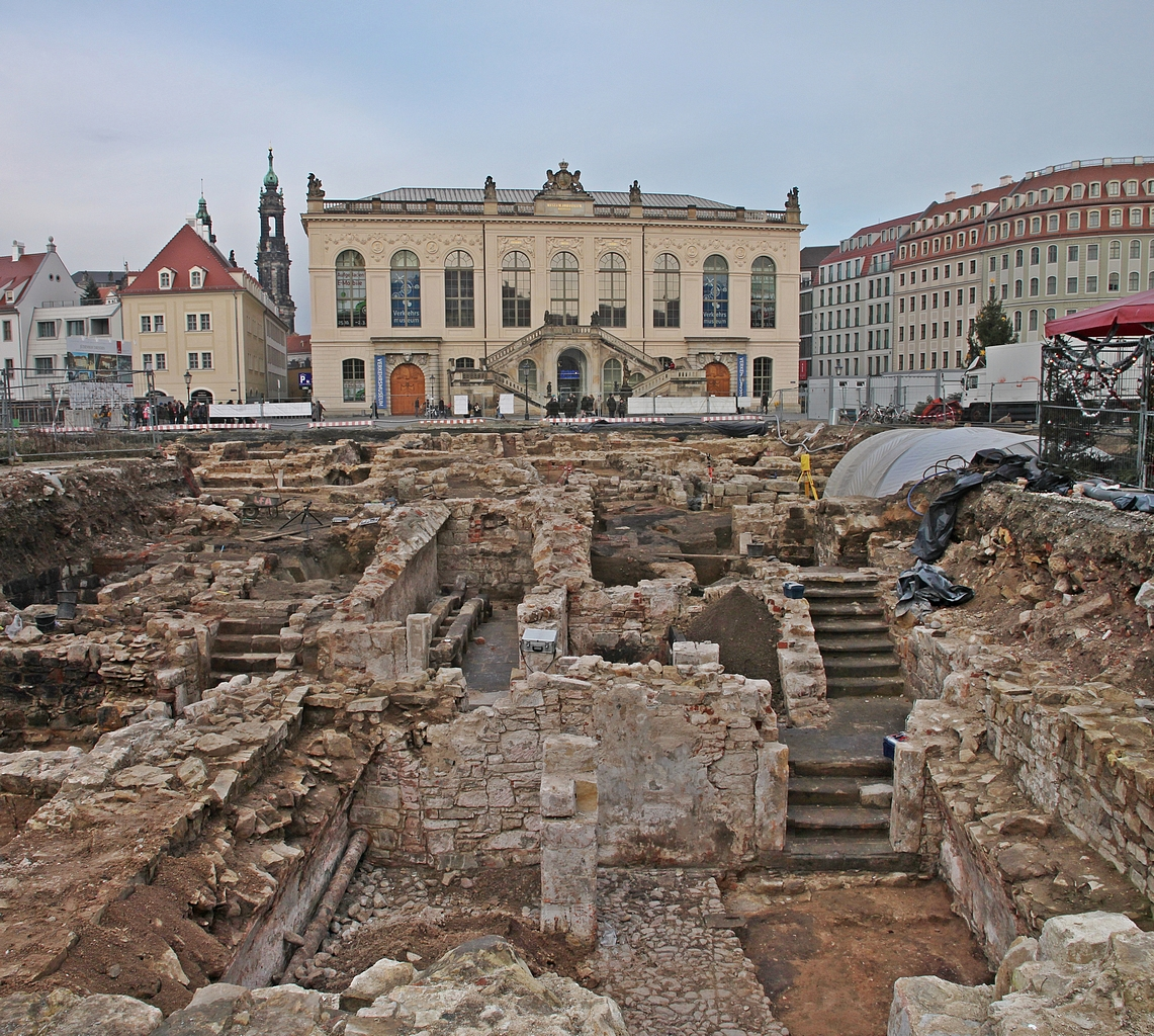 Dresden: archaeological excavation in the Quarter VI at the Neumarkt with the Johanneum in the background. The historic area of the Neumarkt was almost completely wiped out during the Allied bomb attack during the Second World War. Huge areas and parcels of the place remained untilled. The completion of the reconstructed Dresden Frauenkirche in 2005 marked the first step in rebuilding the Neumarkt.